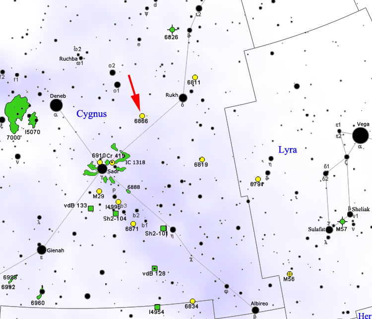 Map of NGC 6866